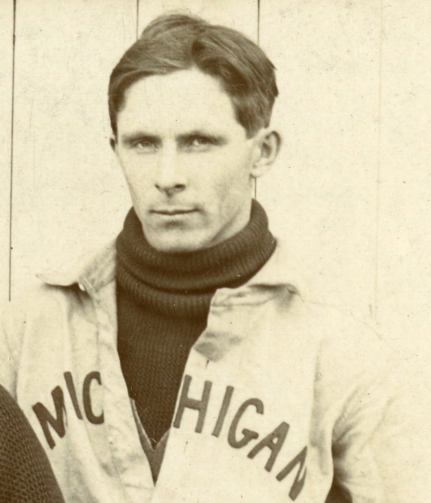 Photograph of Charles F. Watkins